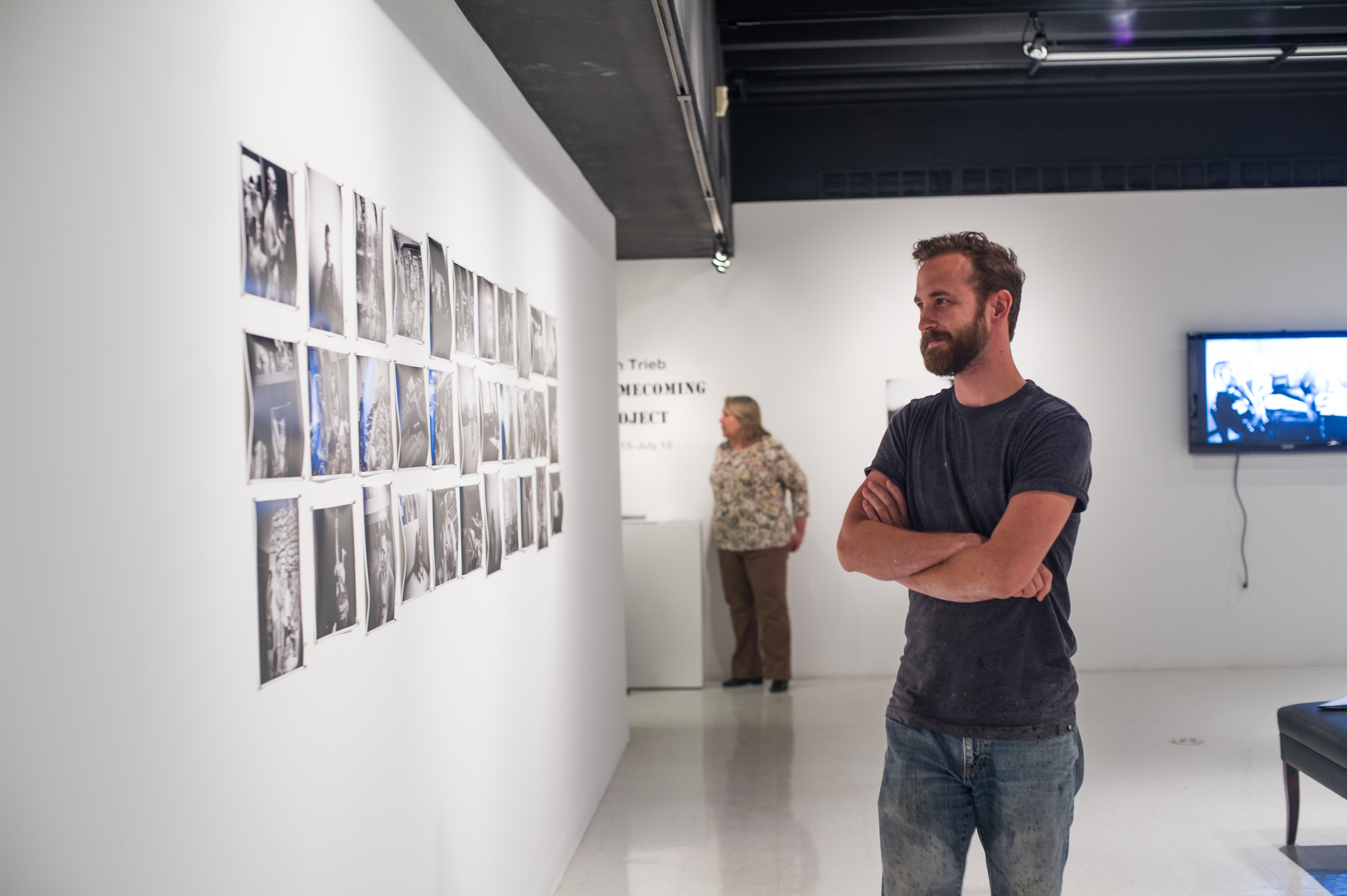 15228-event-Erin Trieb Gallery Opening-4301 Erin Trieb gallery opening at Texas A&M University–Commerce